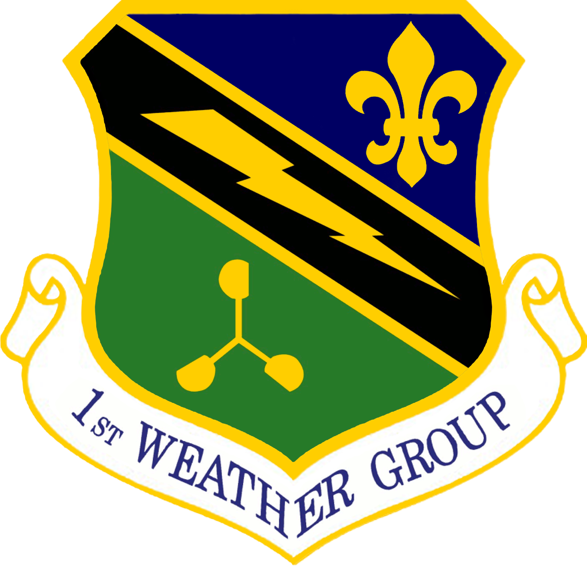 Emblem of the 1st Weather Group (1 WXG) of the Air Force Weather Agency of the United States Air Force